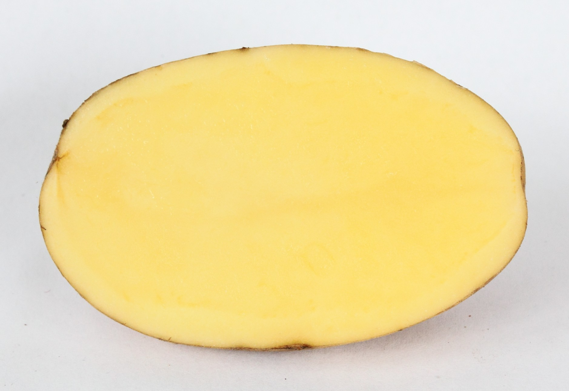 Cross section of potato variety Linda from private organic farming, 3 months after harvest. Seed potato supplied by Pötschke, Germany.